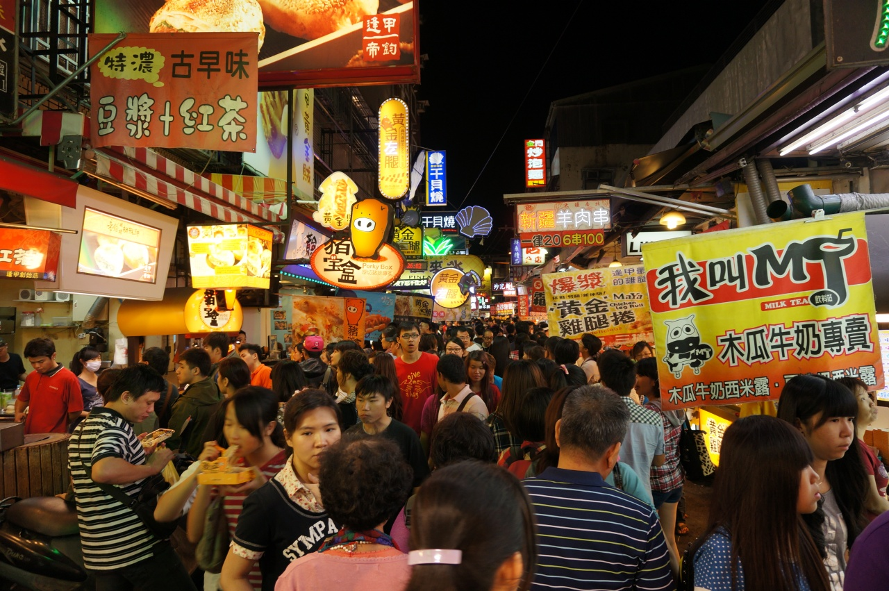 Feng Chia Night Market, Taichung